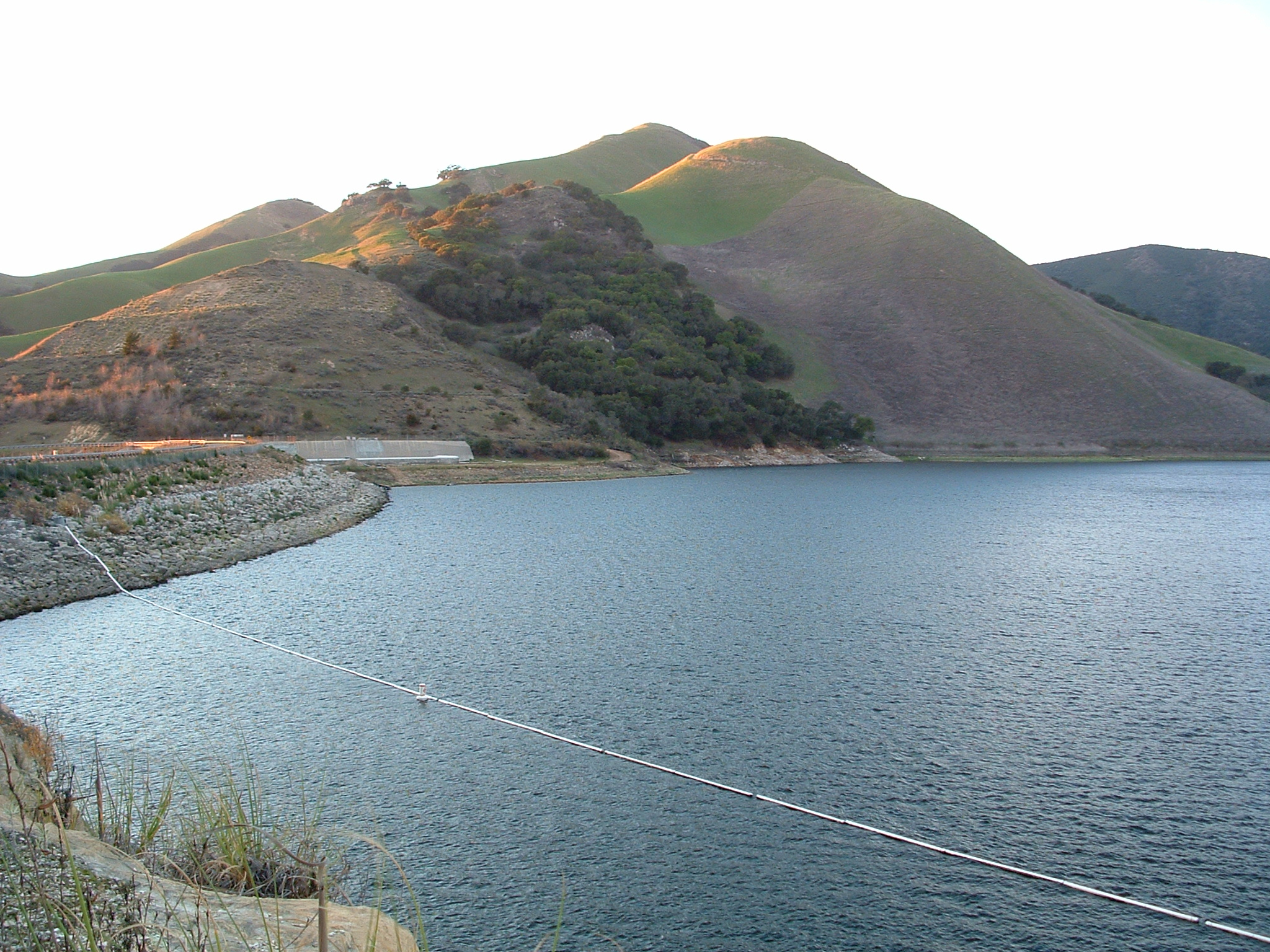 Lopez Lake — a reservoir on Arroyo Grande Creek, located near Arroyo Grande in San Luis Obispo County, California. Lopez Dam can be seen on the left. Credits The picture was taken by me on January 1, 2003. I give permission for the picture to be used with attribution under the GFDL and Creative Commons.